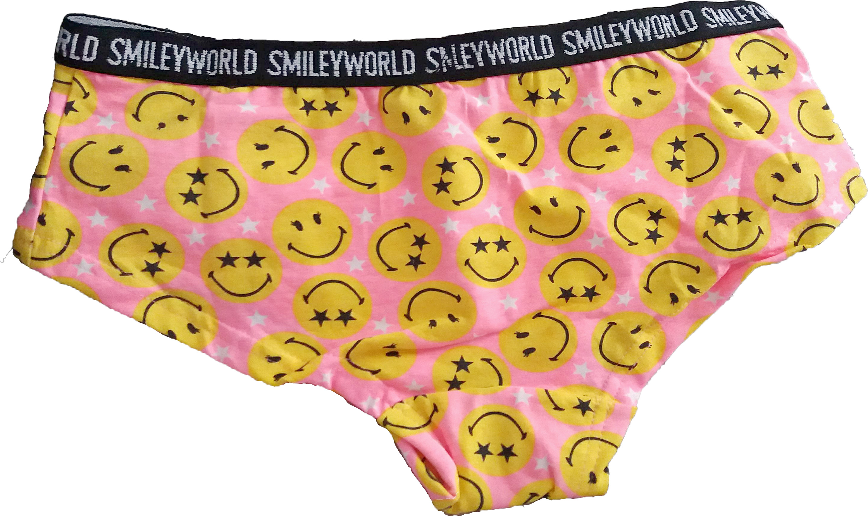 Underpants.